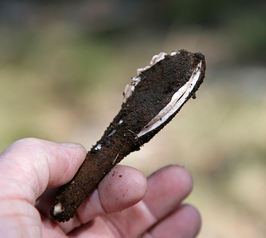 Chorioactis geaster, immature